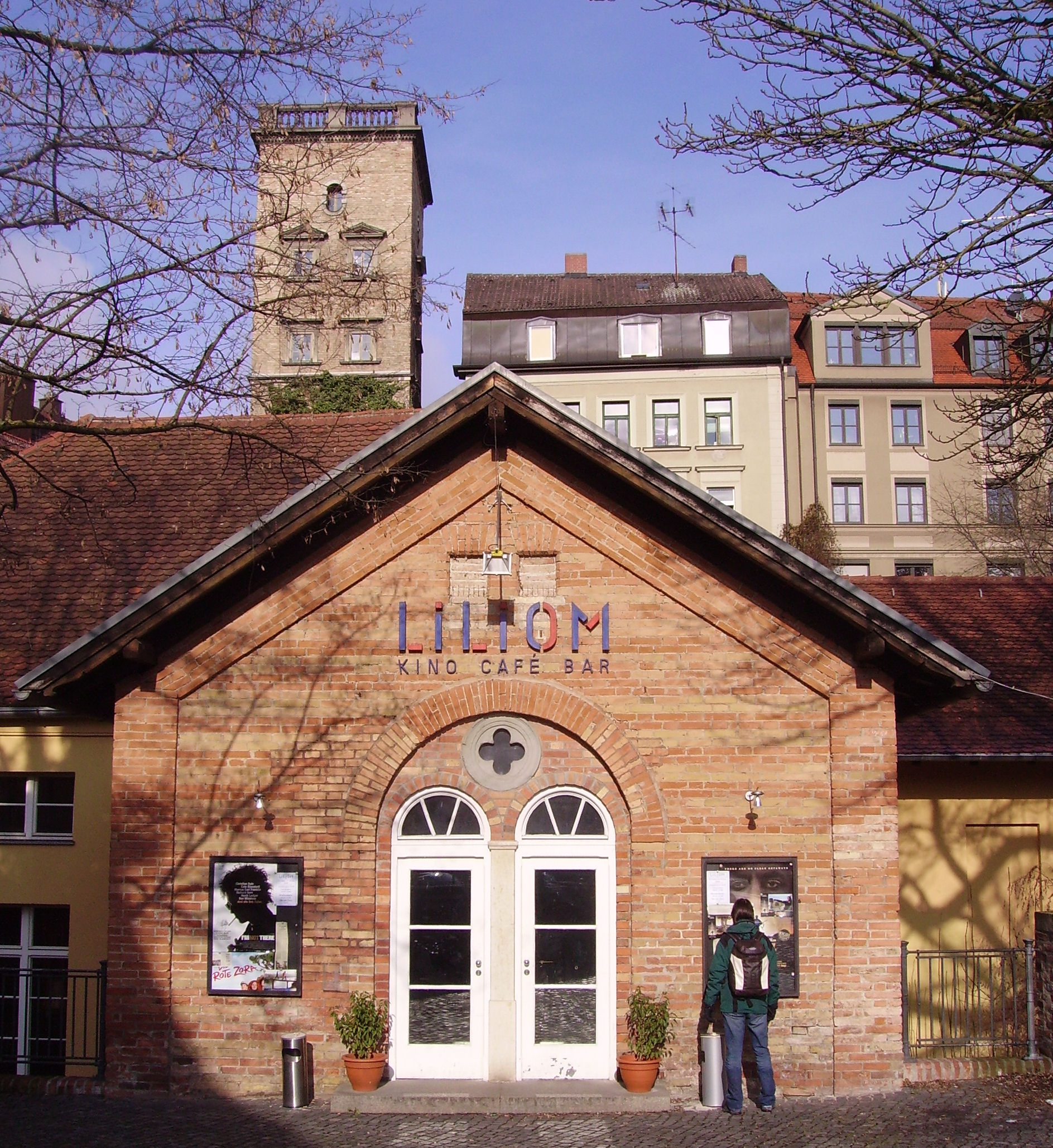 Augsburg Gebäude des Kinos "Liliom" am Unteren Graben